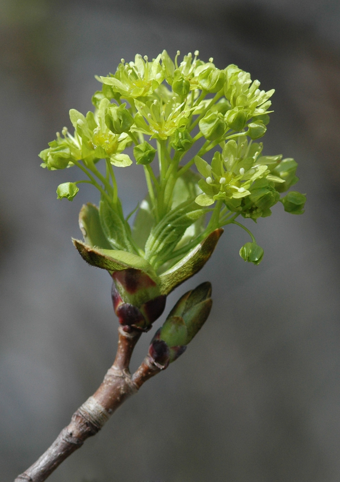 A flower of Acer platanoides